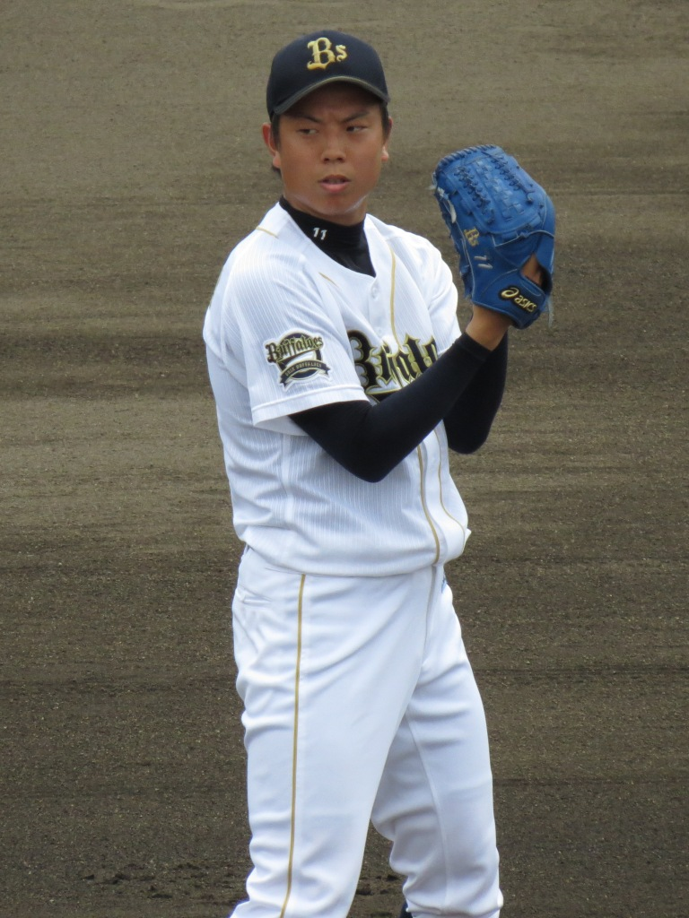 Takahiro Matsuba, pitcher of the Orix Buffaloes, at Tondabayashi Buffaloes Stadium.